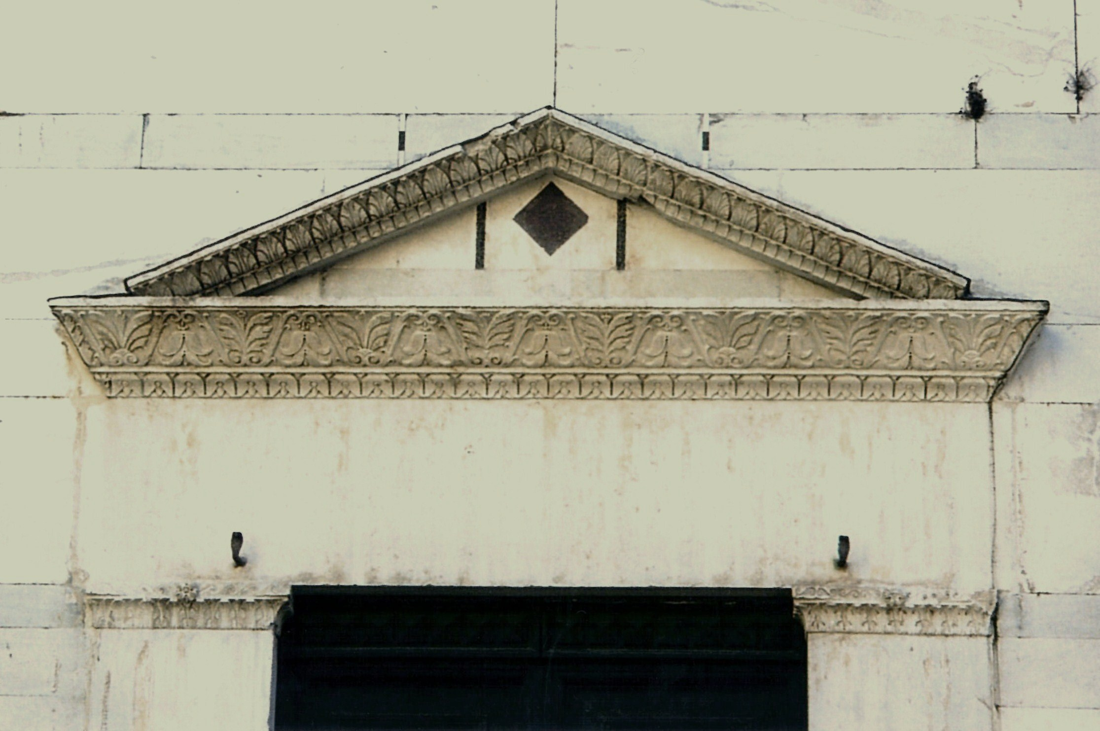 Church of Sant'Alessandro, Lucca. The gable of west portal.